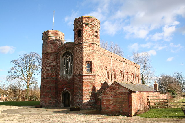 Magdalen College School. Wainfleet's most famous son was Bishop William Waynflete, born William Patten in 1398. He graduated from Oxford, became Master of Winchester School, headmaster and provost of Eton and became Bishop of Winchester in 1447. In 1457 he founded Magdalen College, Oxford and founded the school here at Wainfleet in 1484. His academic achievements contrasted with his political aptitude ... a Yorkist through the Wars of the Roses, he supported Richard III financially before the ill-fated Battle of Bosworth in 1485. He died a year later in 1486 and is buried in Winchester Cathedral.